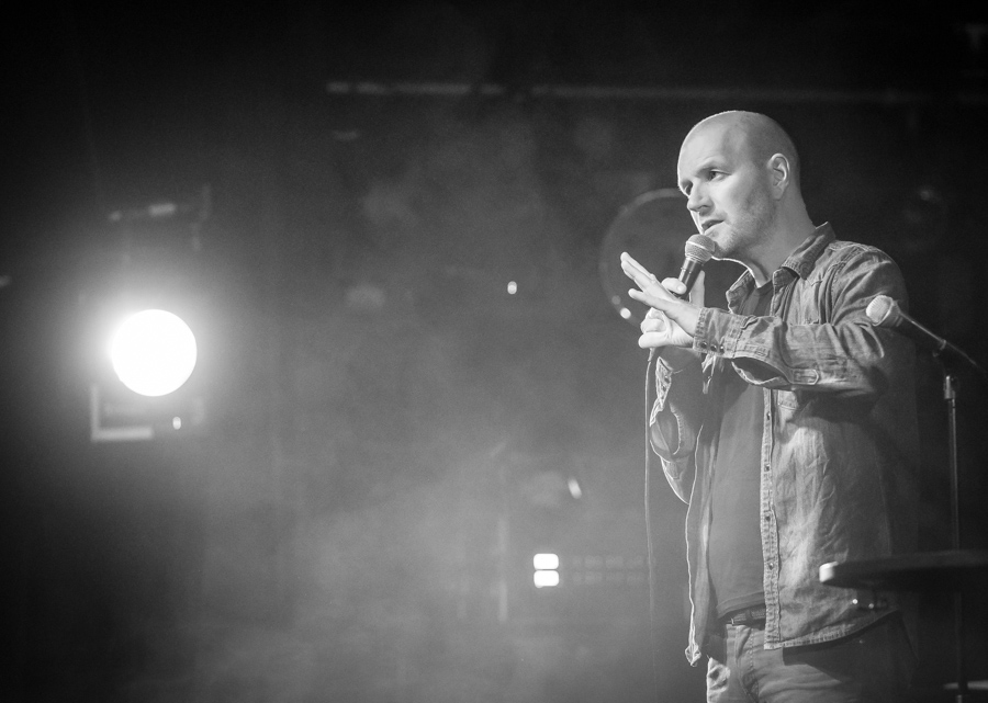 Bård Tufte Johansen on the stage at Tvungen tekst on Parkteatret. The comedy event took place on 27. January 2017 in Oslo as part of Crap Comedy festival 2017. Lineup:Bård Tufte Johansen (comedian)Christoffer Schjelderup (comedian)Lars Berrum (comedian)Jan Tore Kristoffersen (comedian)Cécile Moroni (comedian)